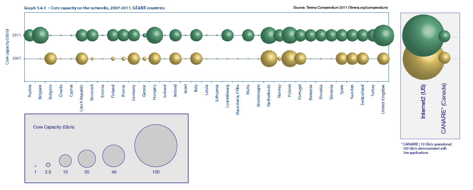 Based on data from the Terena Compendium, this chart shows CANARIE's core capacity (10 Gbit/s) compare to other research-and-education networks (NRENs)